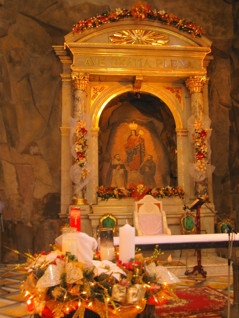 Virgen del Rosario de las Lajas